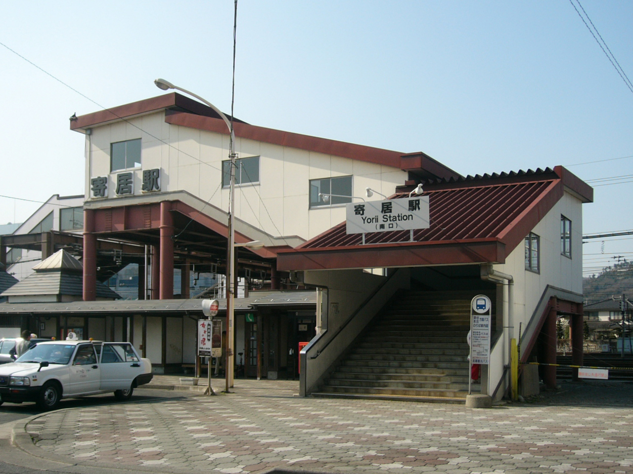 The south entrance to Yorii Station in Saitama Prefecture, Japan